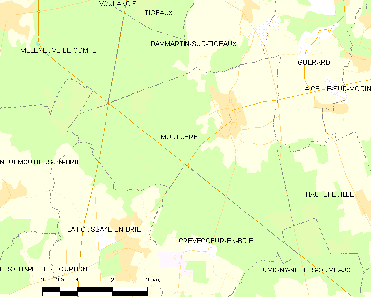 Map of French municipality Mortcerf